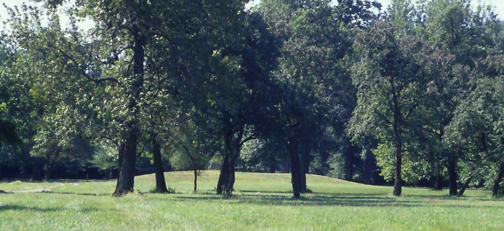 Mound 72 at Cahokia, a ridge-top burial mound south of Monk's Mound, where archaeologists found the remains of a man in his 40s who was probably an important Cahokian ruler. The man was buried on a bed of more than 20,000 marine-shell disc beads arranged in the shape of a falcon.